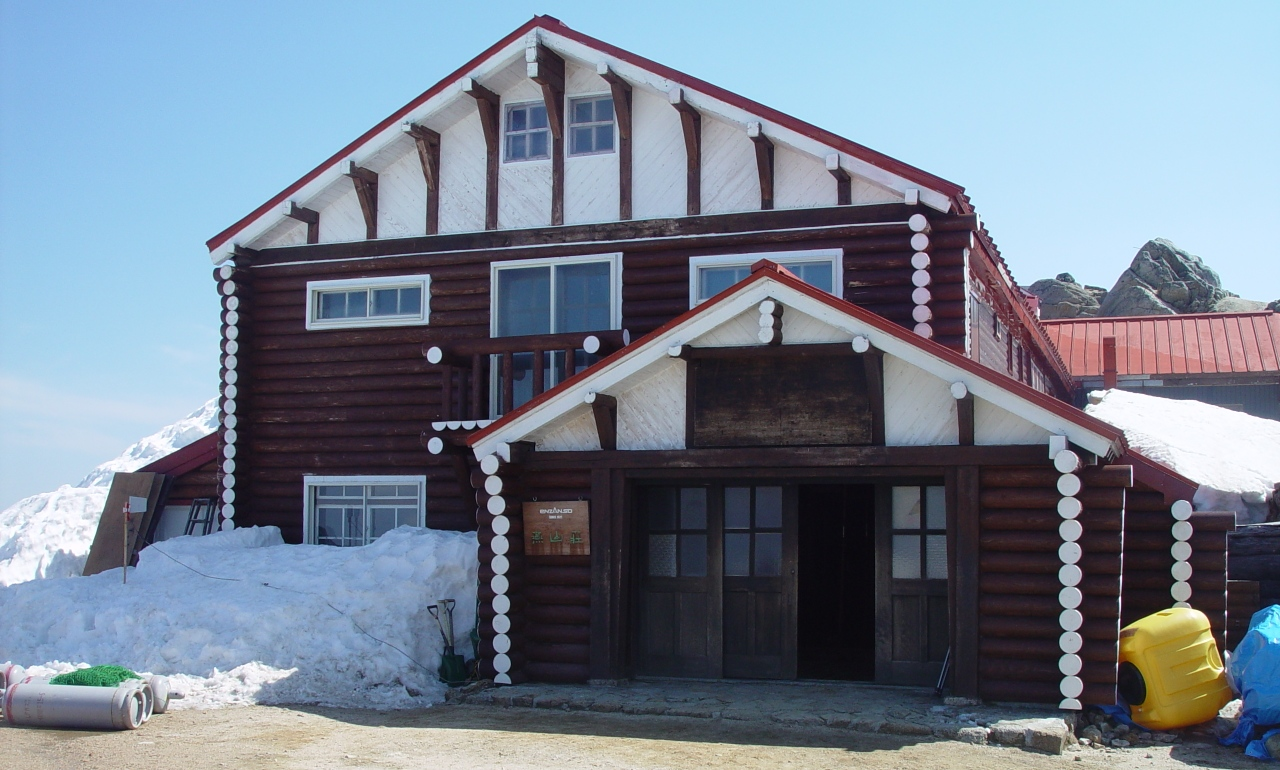 Mountain hut Enzanso ("Mount Tsubakuro Hut") in the Hida Mountains, Japan